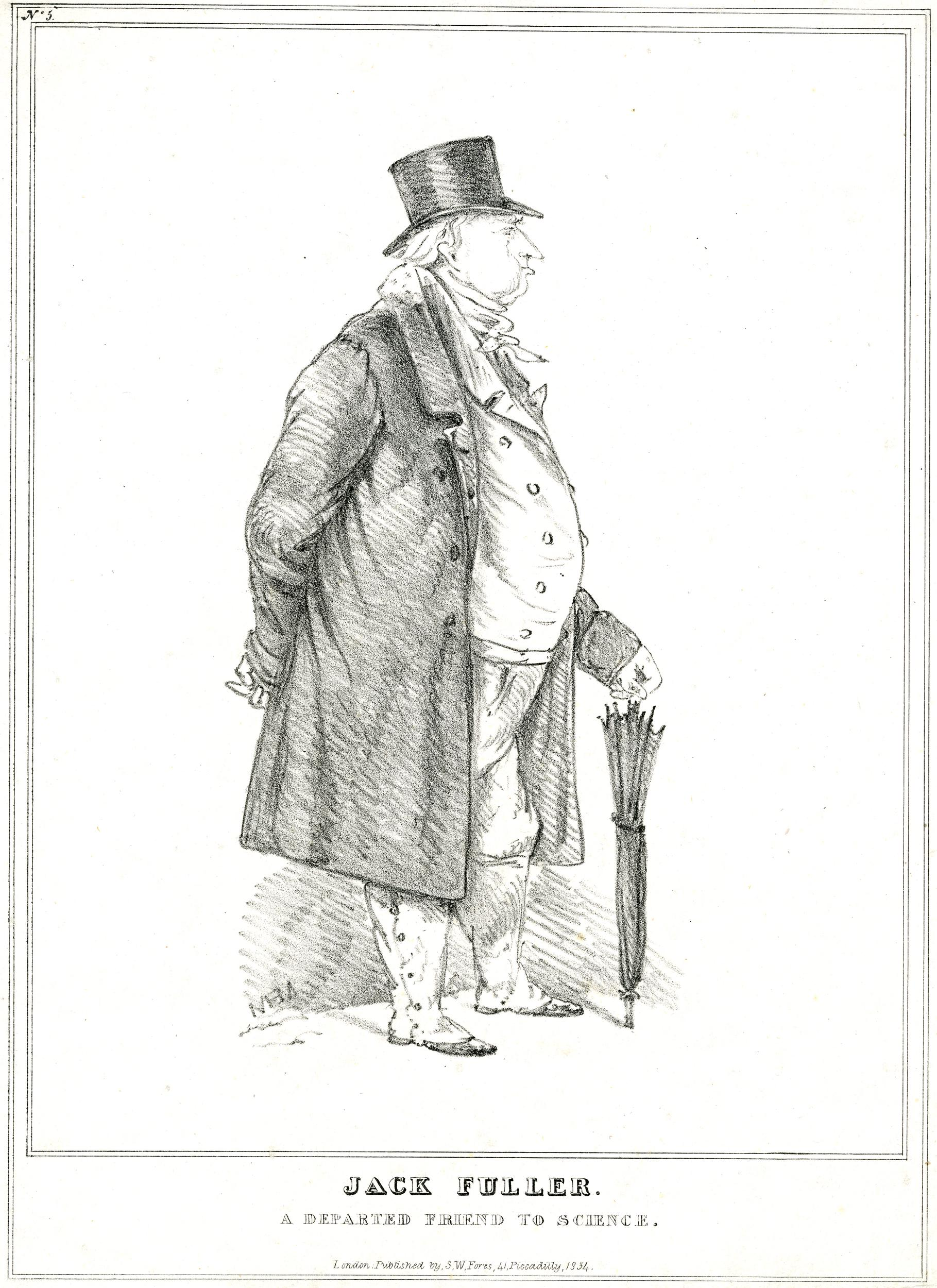 Portrait of John [Jack] Fuller; whole length, standing, to the right, holding standing umbrella in left hand, his right hand behind back; wearing overcoat and top hat. 1834 Lithograph